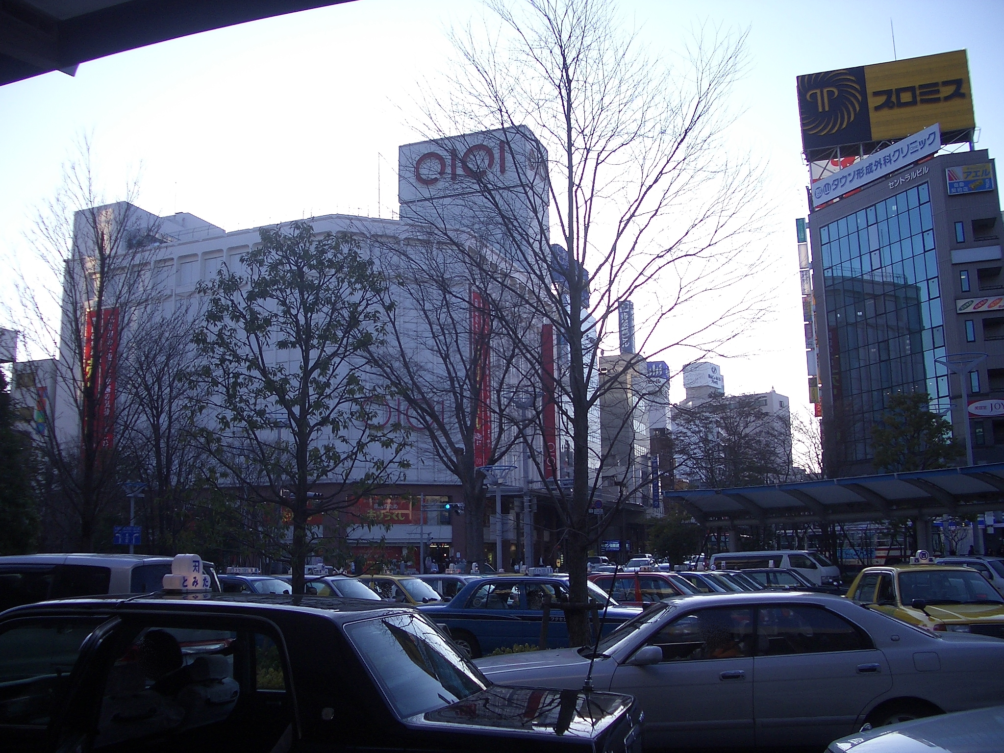 2008 (Heisei 20th) February 29 Ik06 himself shot.